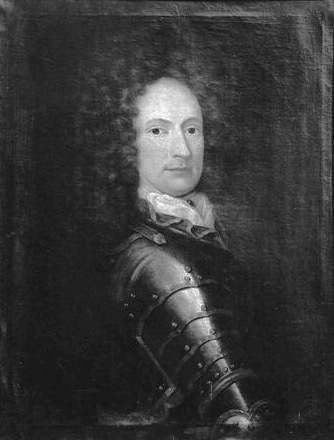 Painting of Curt Christoph von Koppelow